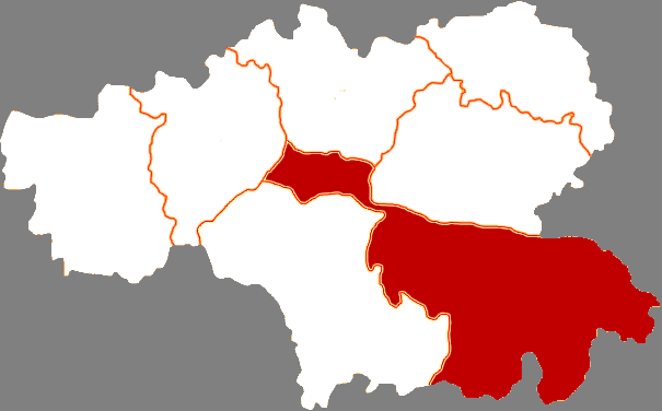 Location of Maiji district in Tianshui city, China